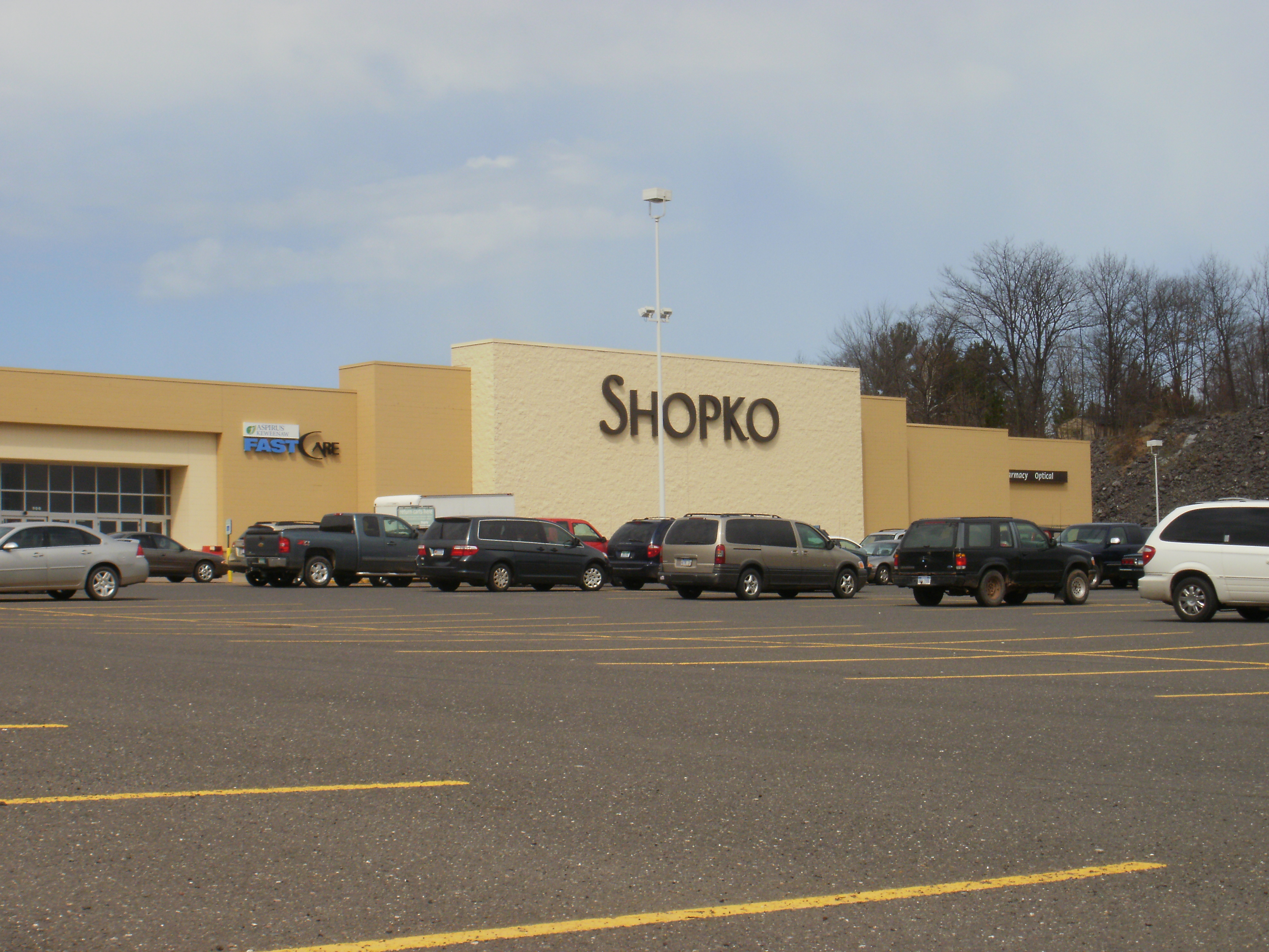 The Shopko store in Houghton, Michigan. Originally built with a red, blue and white color scheme, it was updated to the new style a few years ago.